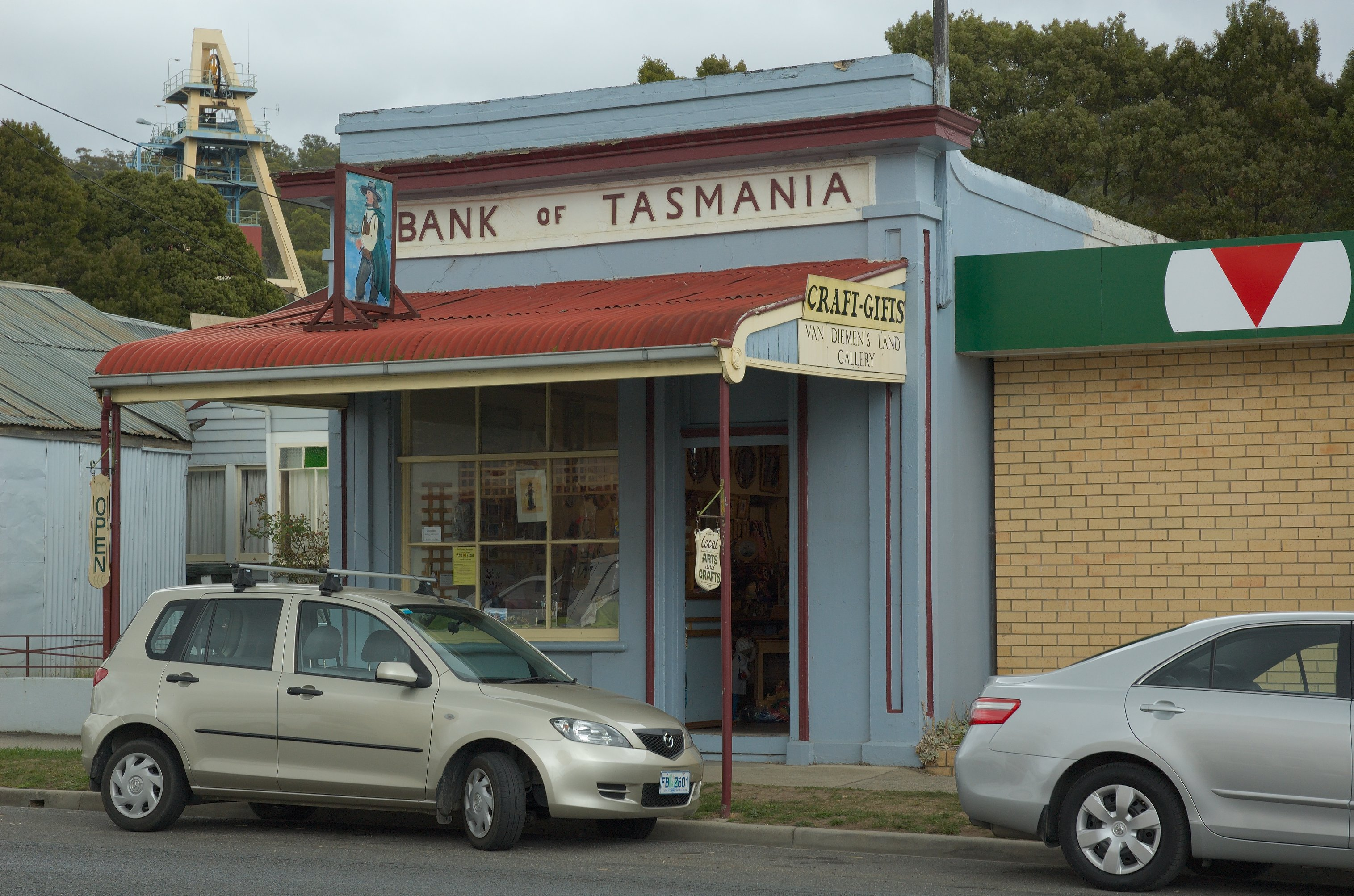 Former Bank of Tasmania building in Beaconsfield, now a craft and gift shop. The Bank of Tasmania was a small bank established in Launceston in the 1850s, not to be confused with the National Bank of Tasmania or the Commercial Bank of Tasmania. It established a branch at Beaconsfield in the early 1880s.